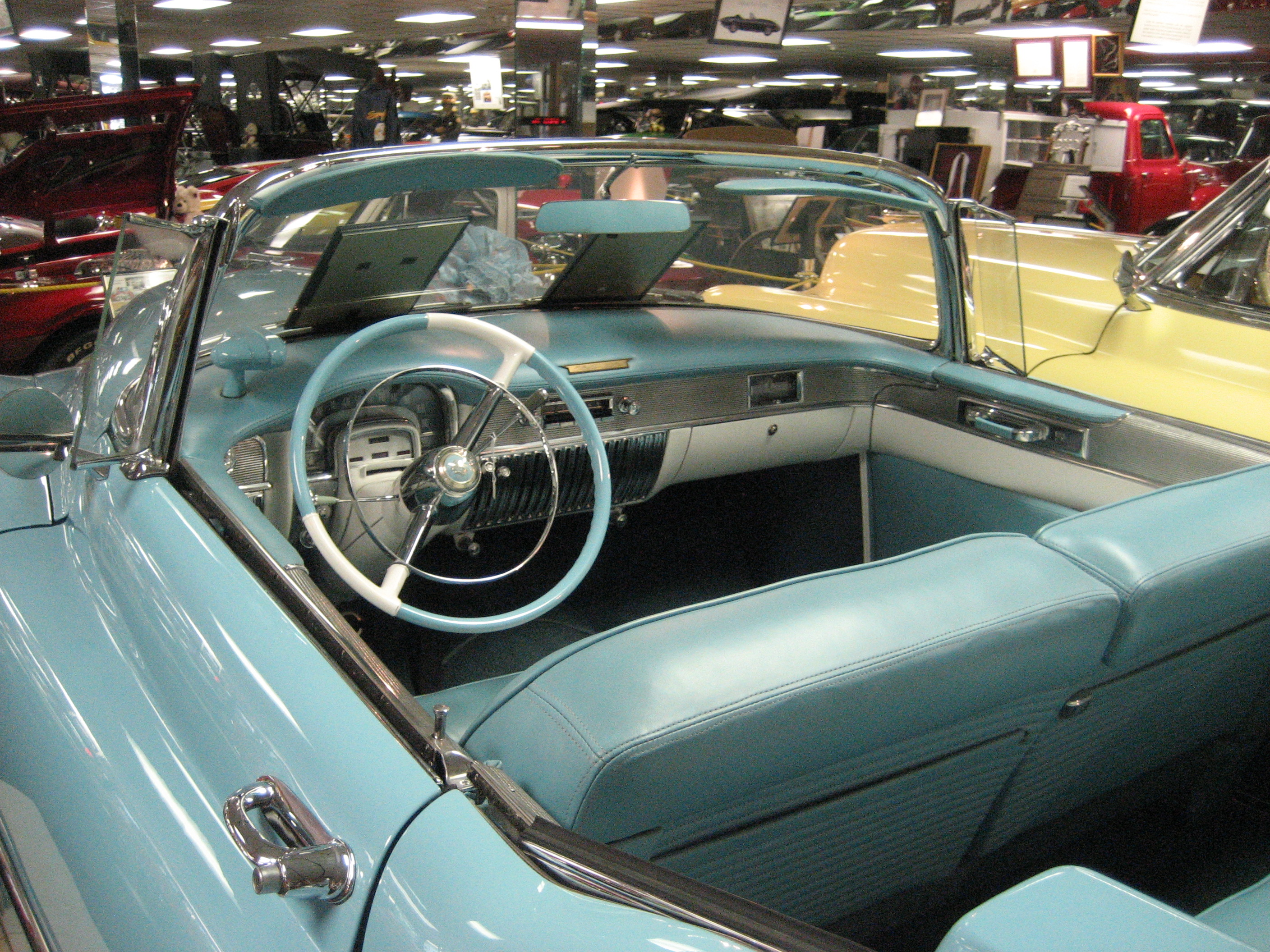 1953 Cadillac Eldorado Convertible on display at the Tallahassee Automobile Museum.